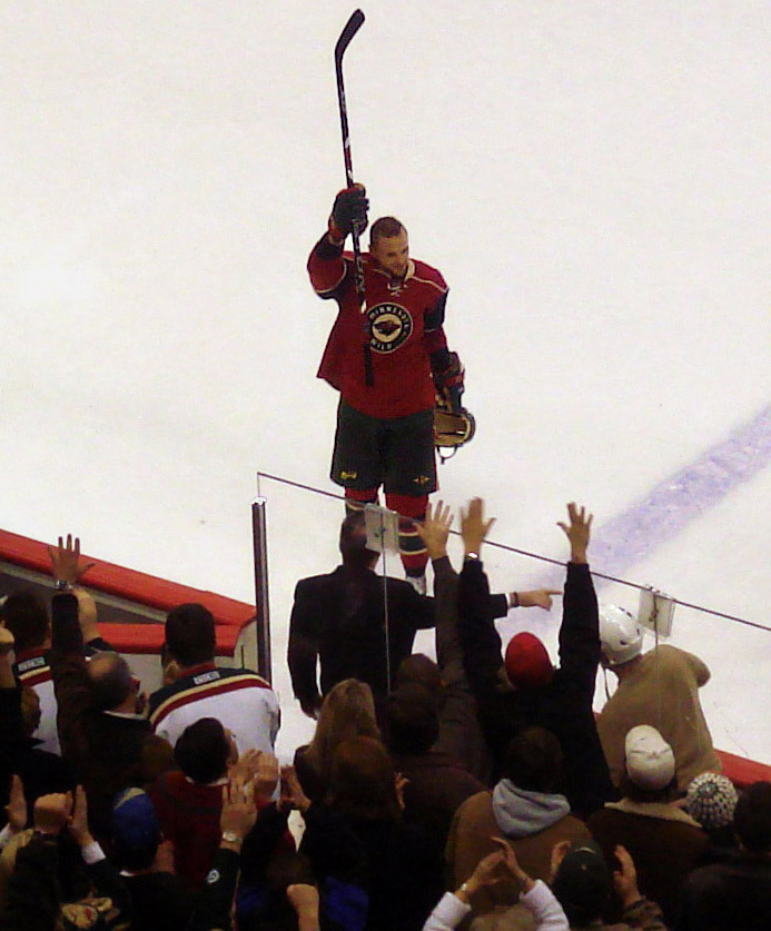 The Minnesota Wild's Marián Gáborík waving to the crowd after his famous December 20, 2007 game against the New York Rangers where he scored five goals and had one assist, making him the first players since to score five or more goals since Sergei Fedorov on December 26, 1996. The Wild won, 6–3.